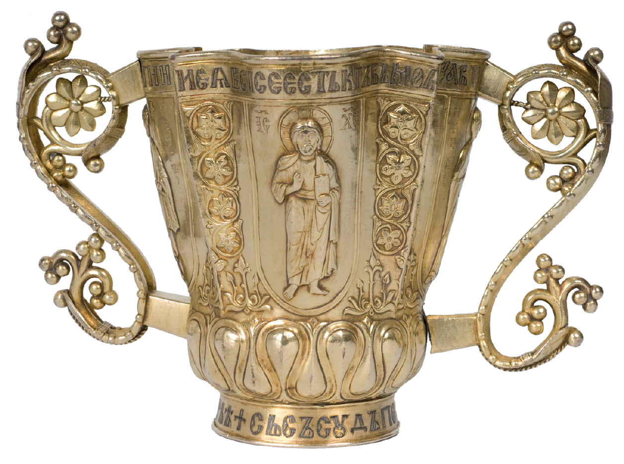 Costa's (Constantine) kratir (bowl) of St. Sophia Cathedral Novgorod